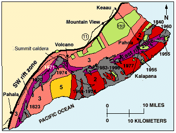 Hazard zones for lava flows on Kilauea. The flows erupted since 1800 are shown in gray and dated. Twenty-eight percent of the area encompassed by Zones 1 and 2 on the east half of the volcano has been covered by lava since 1955. The major housing subdivisions on the slopes of the volcano are shown in green.